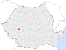 Location of Hațeg in Romania.